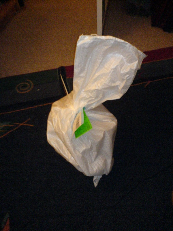 A sack of mail typical of what's used worldwide.